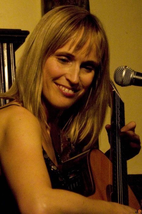 Ana Laan in concert